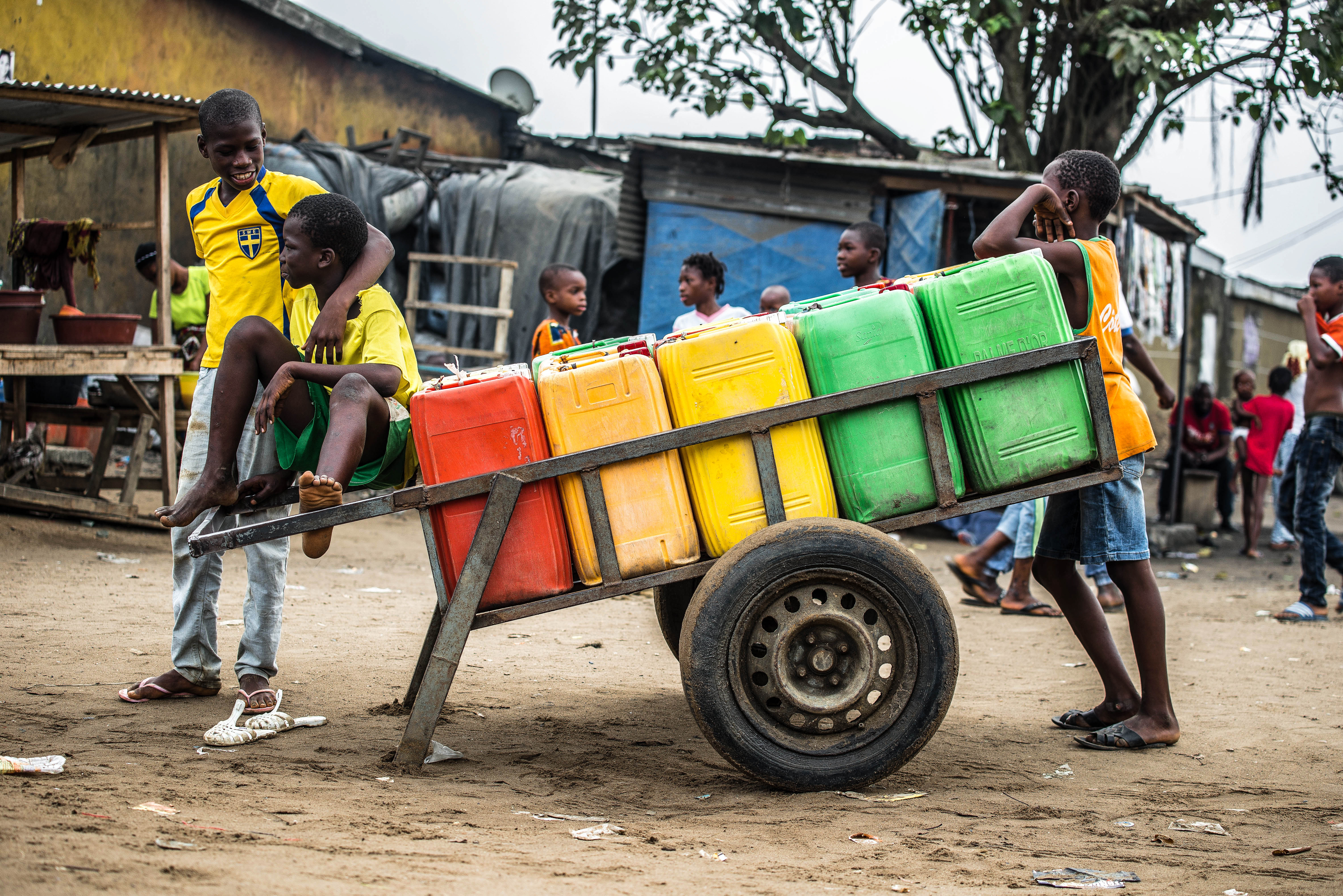 Des enfants utilisant une charrette pour le transport d'eau dans des bidons de 40 litres pour les tâches quotidienne This is an image with the theme "Africa on the Move or Transport" from: Ivory Coast